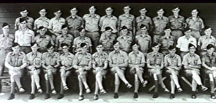 Mallala, SA. Group portrait of participants in No. 54 Twin Engine Refresher Course at RAAF No. 6 Service Flying Training School (6 SFTS). Left to right: Back Row: Flight Sergeant (Flt Sgt) S.S. Jordon, Sergeant (Sgt) J. Breeze, Sgt C. Cox, Sgt W.N. Munns, Sgt R.K. Mansfield, Sgt K. Pickworth, Flt Sgt G.R. Pitman, Sgt R.C. Ray, Sgt E. Marshall, Sgt K. Johnson, Sgt G.T. Richards; Middle Row: Sgt K.S. Pinson, Flt Sgt L.F. Jennings, Sgt L.S. Paul, Sgt B. Hay, Sgt Heaton, Sgt L.A. Murray, Flt Sgt C.J. Woods, Sgt E. Bignell, Sgt S. Woolford, Sgt W. Gray, Sgt W.E. Williams; Front Row: Sgt K.P. Moore, Sgt D. Magee, Sgt E.D. Mc Hardie, Sgt J. Mellon, Sgt R.L. Jarman, Sgt C.F. Leslie, Sgt Bunce, Sgt N.J. Bailey, Sgt C.D.R. Keen, Sgt F.L. Garner, Sgt A. Grant, Sgt H.L.D. Titmus. Missing: Flying Officer R.B. Rooke. (Donor M. Wilkinson)